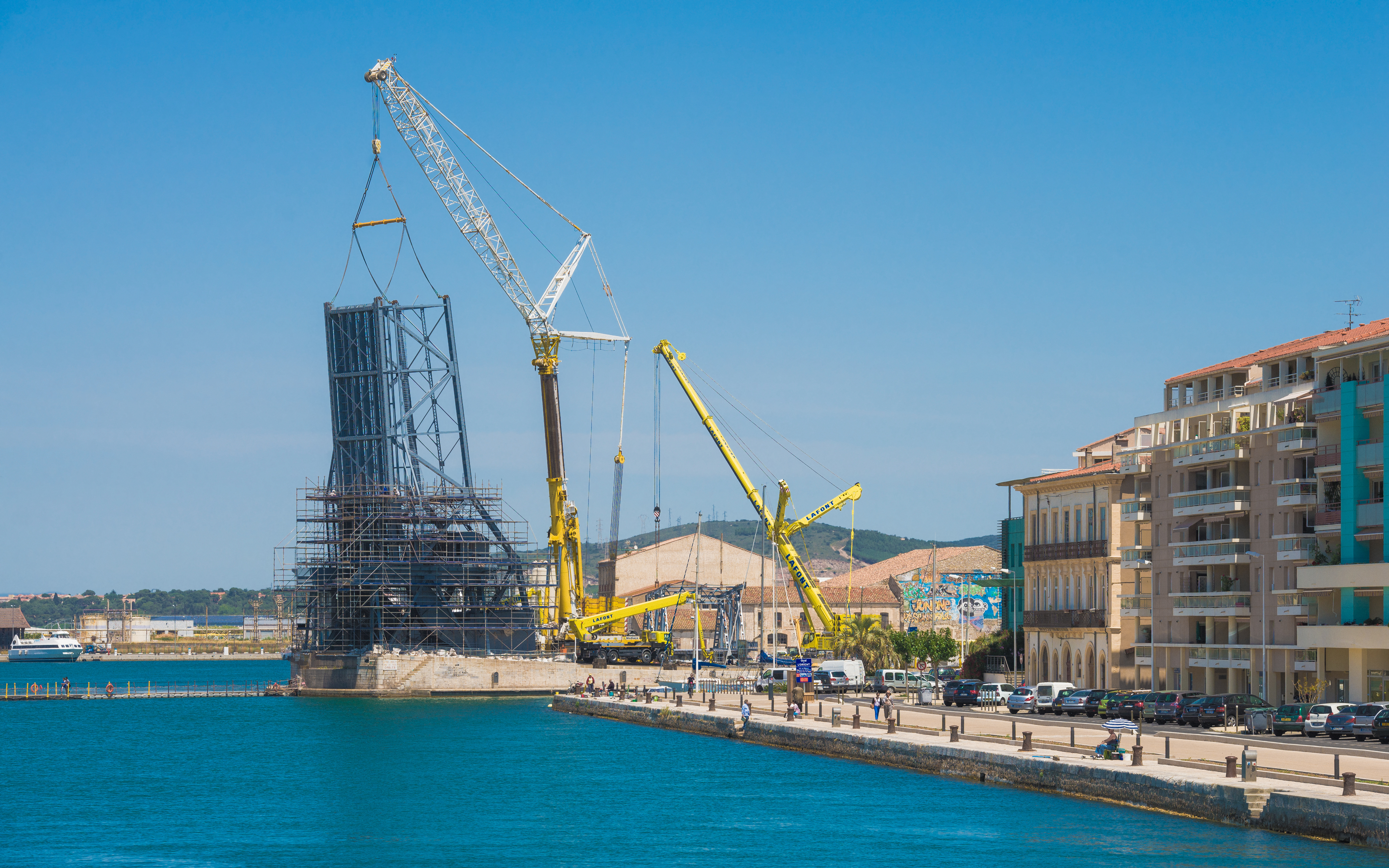 Reassembly of the Tivoli Bridge (bascule bridge) after a dismantling for renovations. Construction of the bridge between 1949 and 1951 by the Établissements Daydé.Sète, Hérault, France.